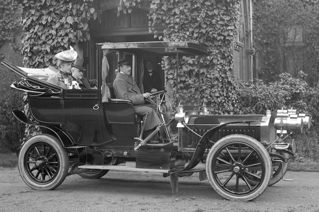 6 cylinder, 5 litre, Napier motor car, coach work by Muhlbacher et Fils of Paris, photographed April 1905 with Frederick Oliver Robinson, 2nd Marquis of Ripon (1852-1923) & (Constance) Gladys, Marchioness of Ripon (d. 1917) when Earl and Countess de Grey, chauffeur, butler (?), French Bull Terrier.